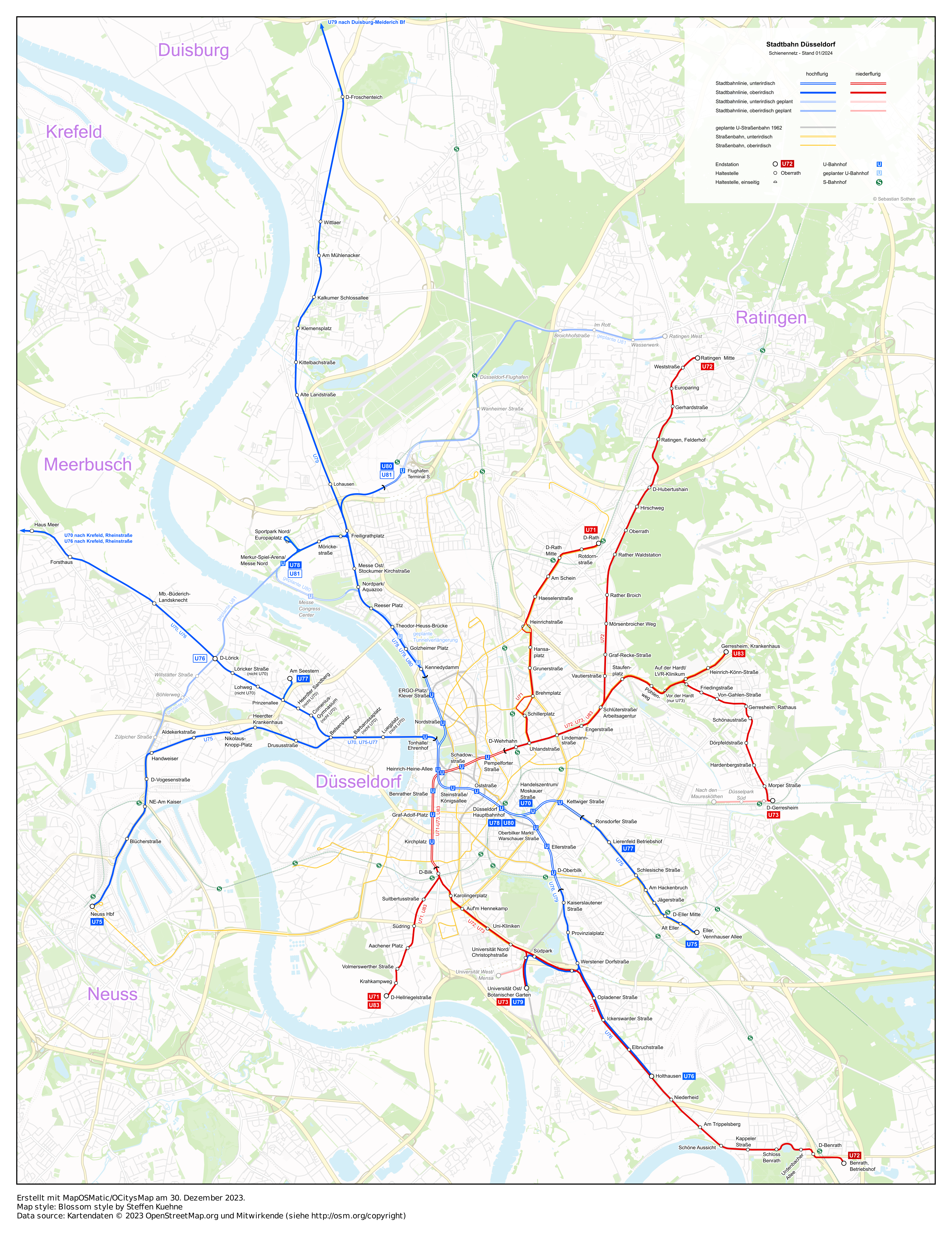 Stadtbahnnetz Düsseldorf This map may be incomplete, and may contain errors. Don't rely solely on it for navigation.